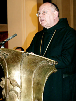 Theodor Hogg OSB as X. Archabbot of Beuron Archabbey (2001-2011) (Photo: probably 2010)